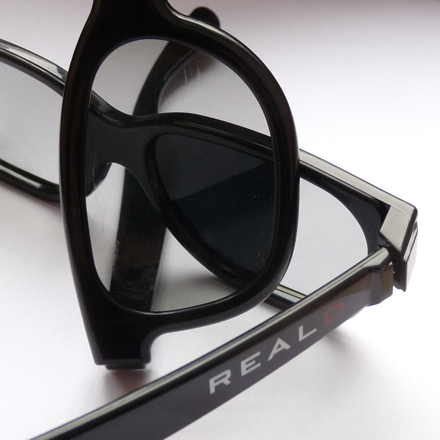 Two opposing RealD glasses show blackening effect. Glasses must be positioned vice versa.